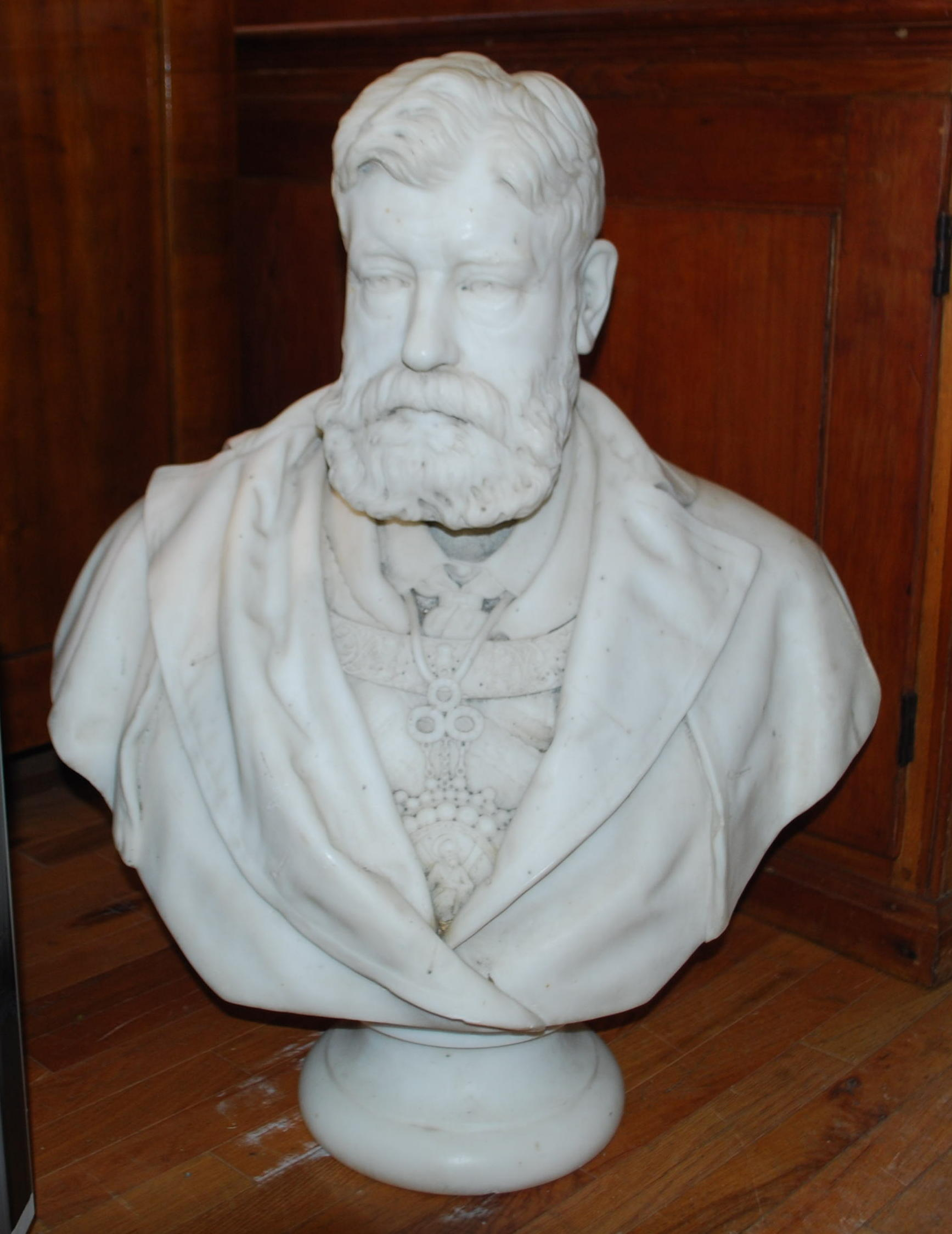 Sculpture of James Carnegie, Earl of Southesk by the Scottish sculptor William Grant Stevenson